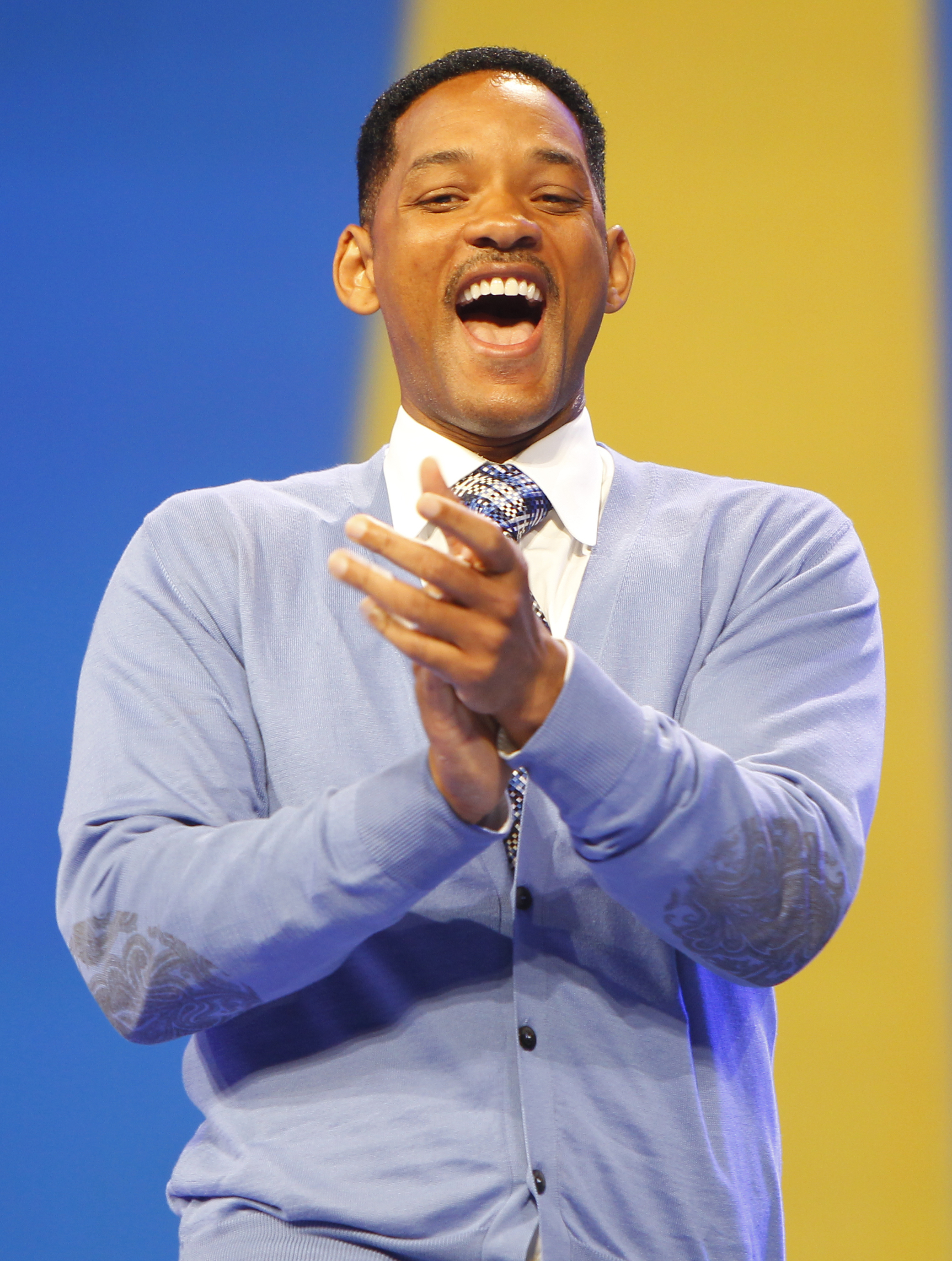 Actor Will Smith lights up the stage as he hosted the 2011 Walmart Shareholders Meeting.